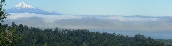 Osorno volcano